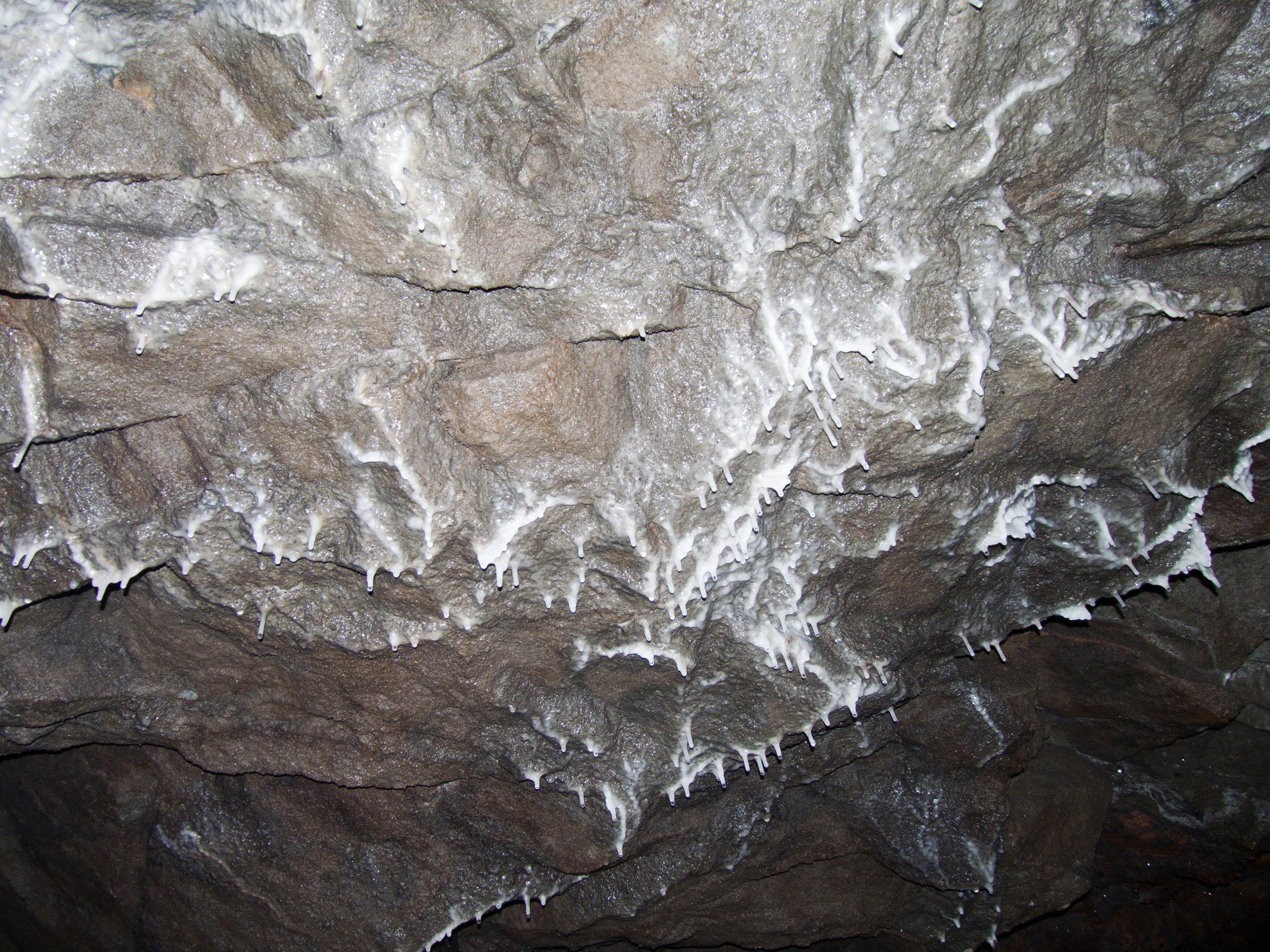 Graphite mine in the town of Český Krumlov, South Bohemian Region, Czech Republic, stalactites.